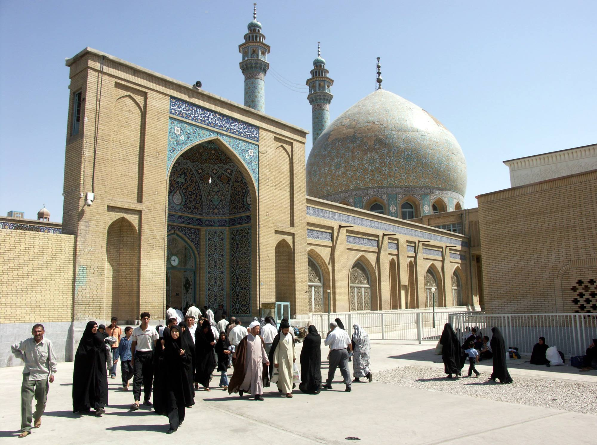 Hazrat Fatimah Mosque, also known as the A'zam (Great) Mosque.